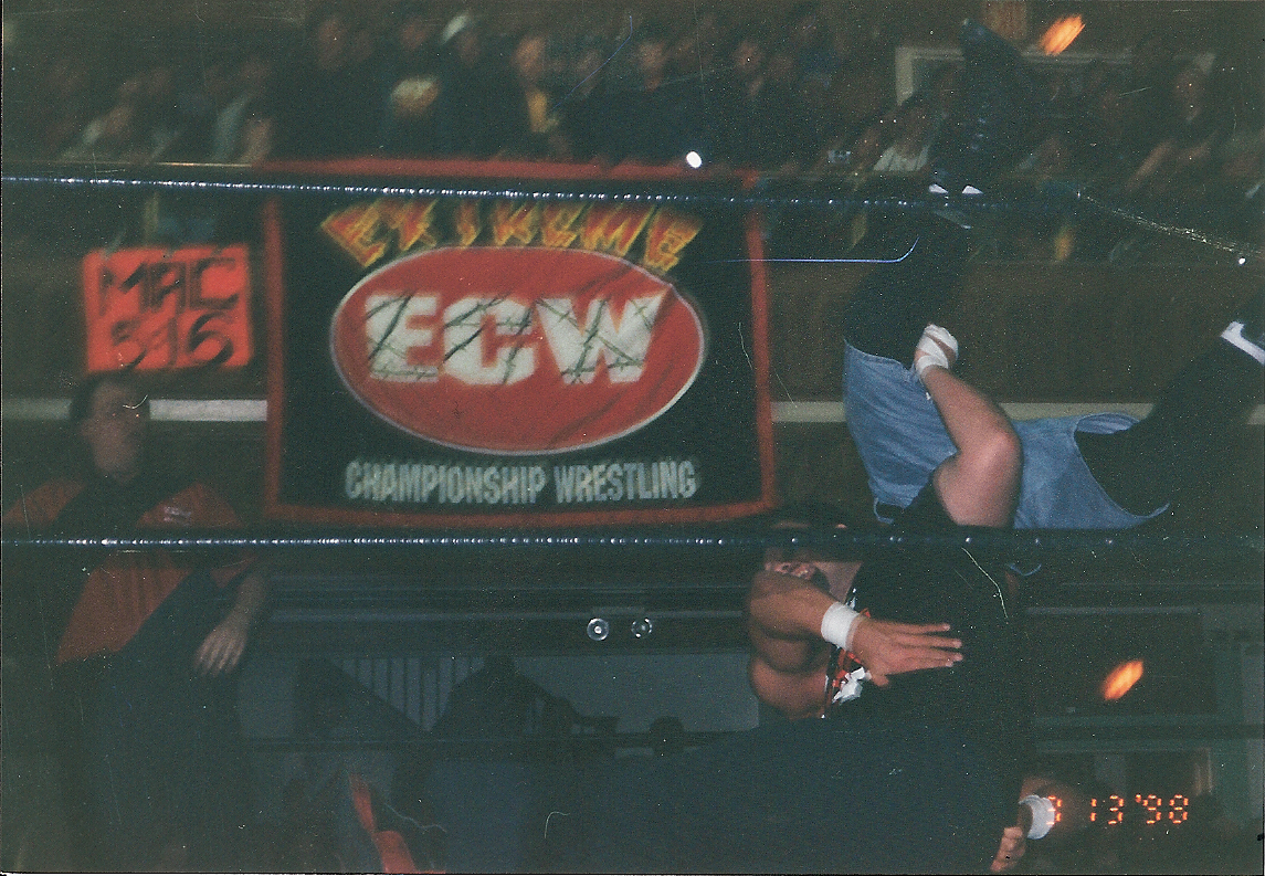 ECW @ Elks Lodge in Queens - March 13, 1998